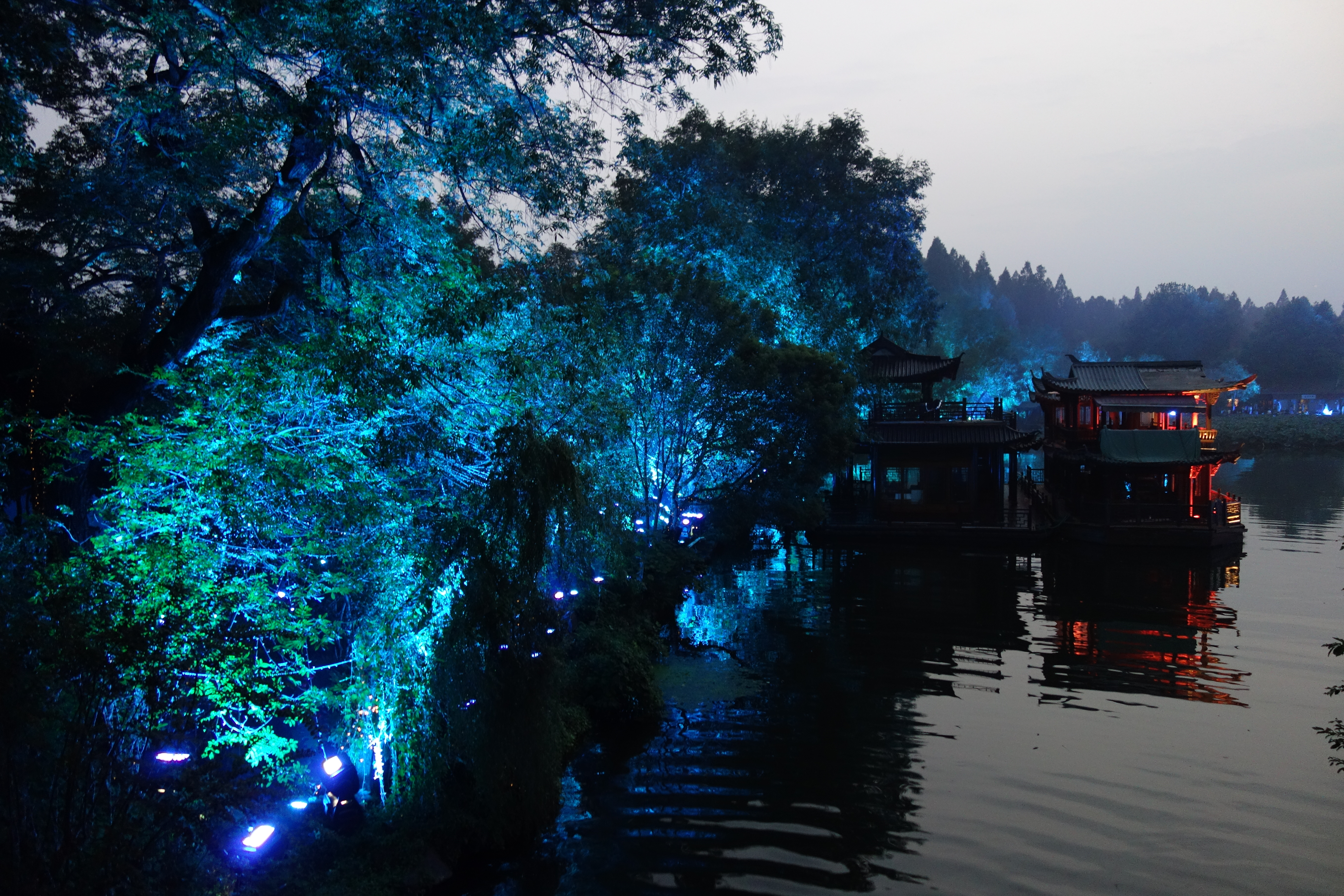 West Lake at night in the Chinese city of Hangzhou.